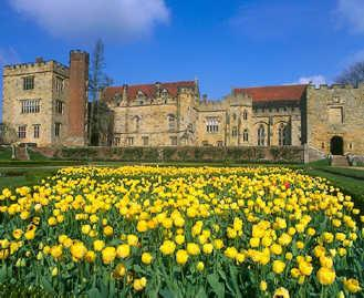 Penshurst Place & Gardens